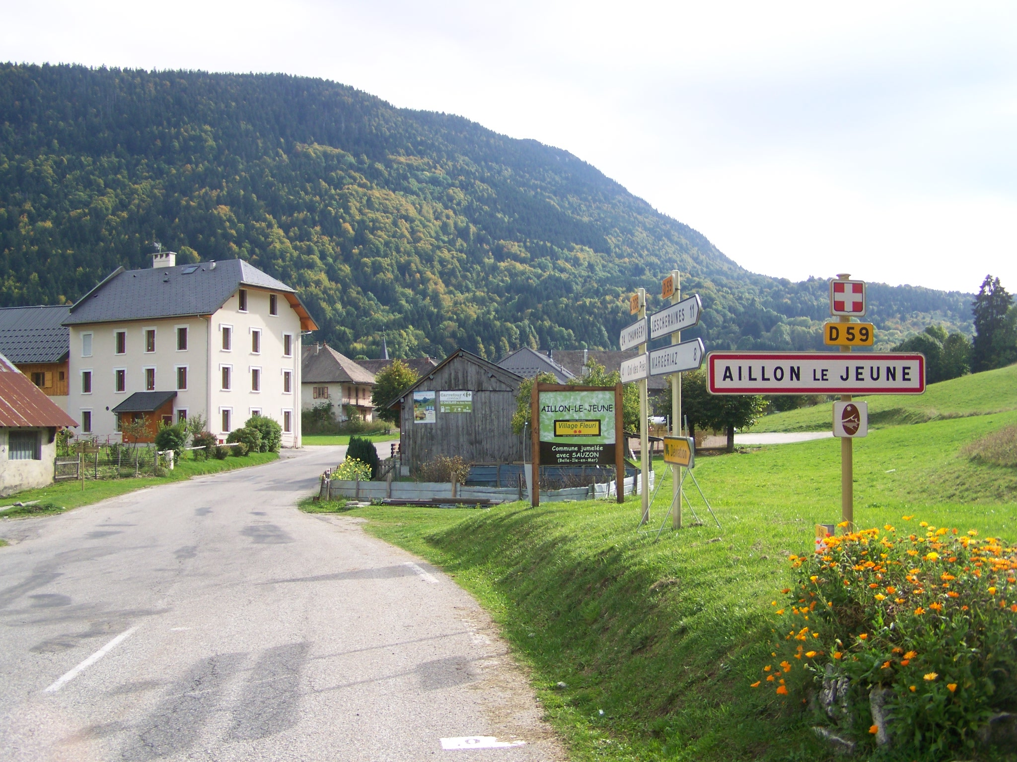 Sign welcoming to Aillon-le-Jeune in the department of Savoie, France.